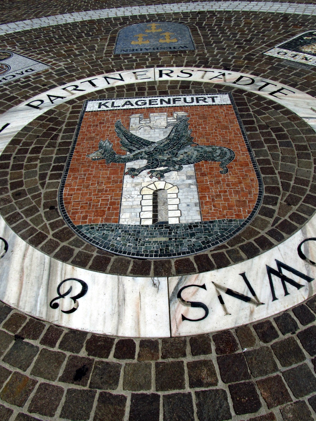 Pavement at Kramergasse, Klagenfurt centre, showing Klagenfurt's and its twin sister's coat of arms.